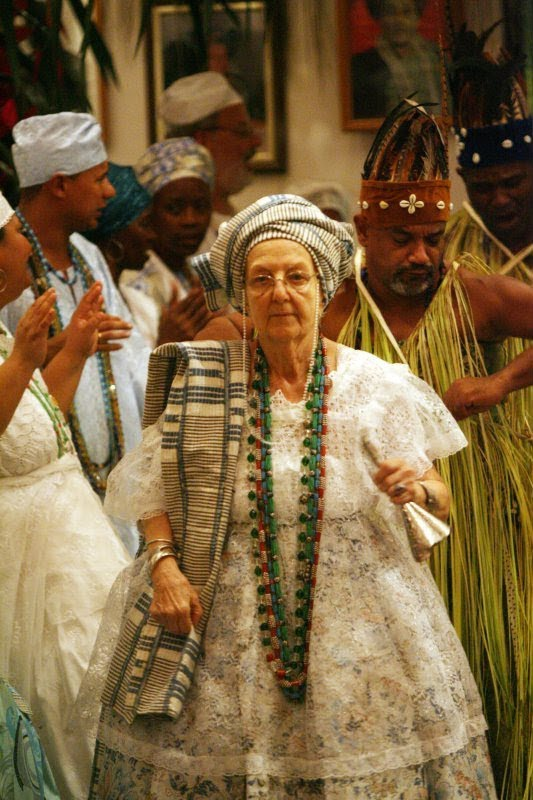 Omindarewa e Ogum